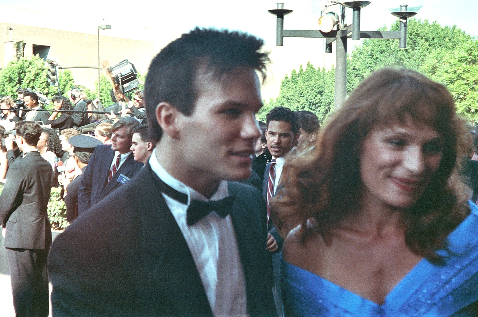 James Marshall and Wendy Robie at the 1990 Emmy Awards.Scanned from the original 35MM film negative.